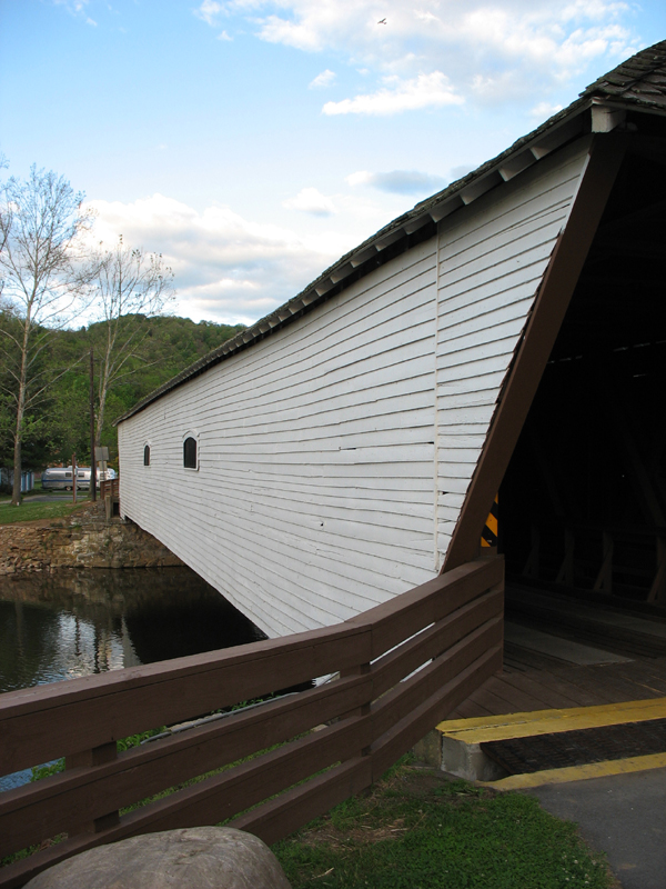 Historic Elizabethton, Tennessee covered bridge, built in 1882, stretches 134 feet across the Doe River.